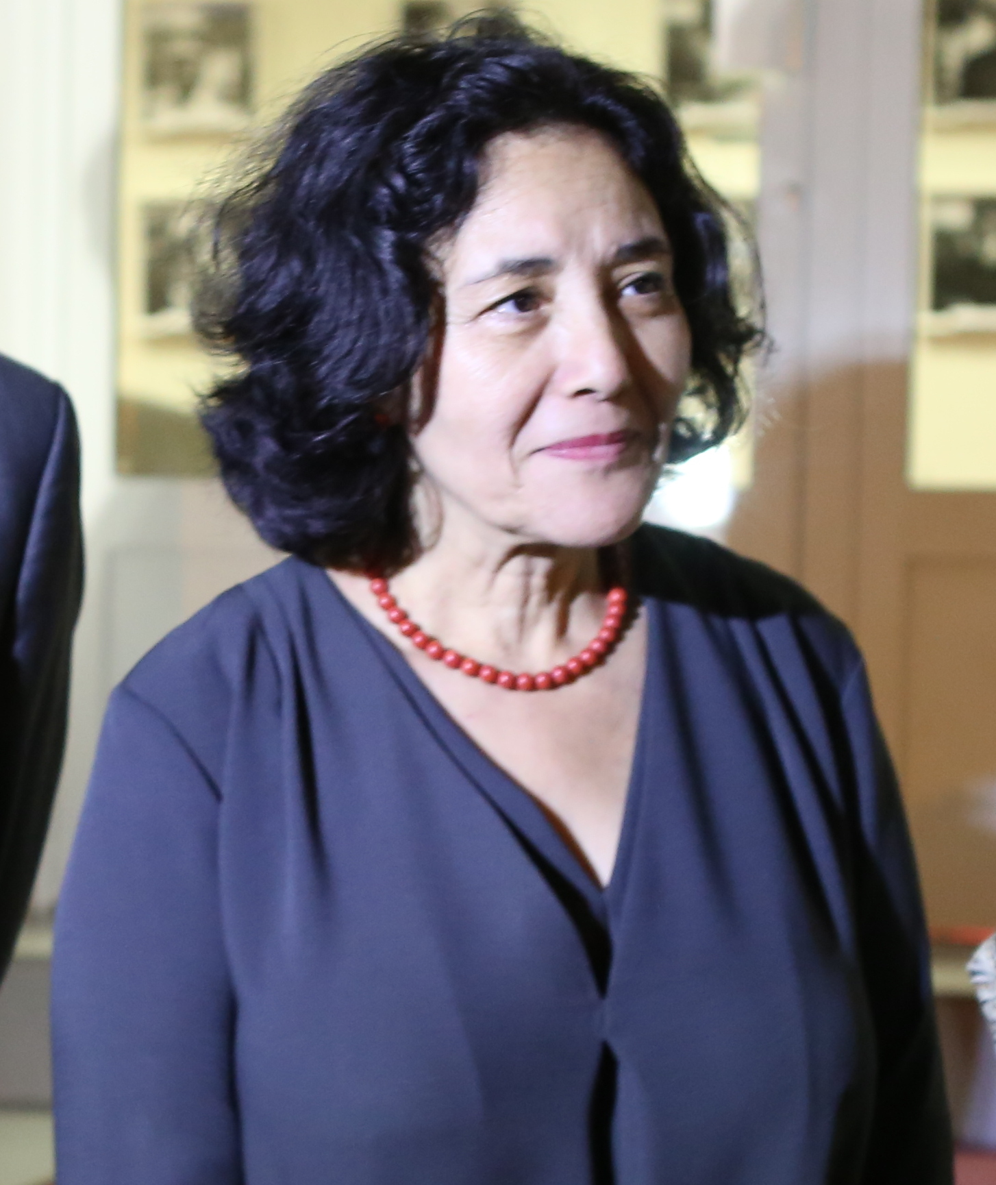 The Special Representative of the Secretary-General for Children and Armed conflict, Leila Zerrougui (center), speaks to the media in Kinshasa, the capital of the Democratic Republic of the Congo. Next to her are standing, on the left, the Special Representative of the Secretary-General in the D.R. Congo, Martin Kobler, and on the right, UNICEF Representative, Barbara Bentein. Ms. Zerrougui arrived in Kinshasa on Sunday, 17 November 2013, to start an official mission, which will take her to the eastern part of the DRC. She is in the country to assess the situation of children affected by armed conflicts. In October 2012, the Congolese Government signed an action plan with the UN to release and reintegrate children associated with the national armed forces and to prevent further recruitment